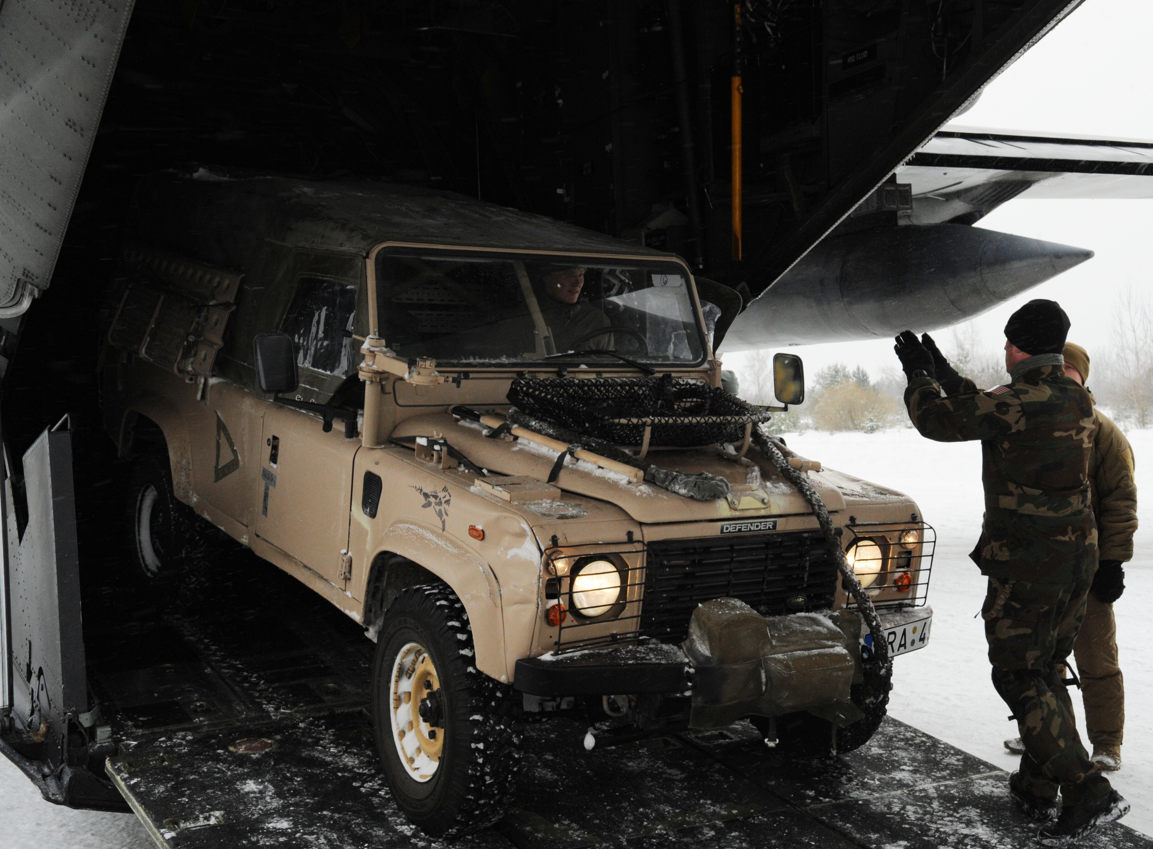 A U.S. Airman guides a Latvian Special Operation Forces (SOF) soldier driving his Land Rover onto an MC-130H Combat Talon 2 aircraft in Rukla Lithuania, Jan. 29, 2010.